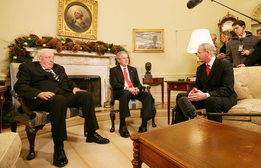 American president George W Bush meeting with Ian Paisley and Martin McGuinness.